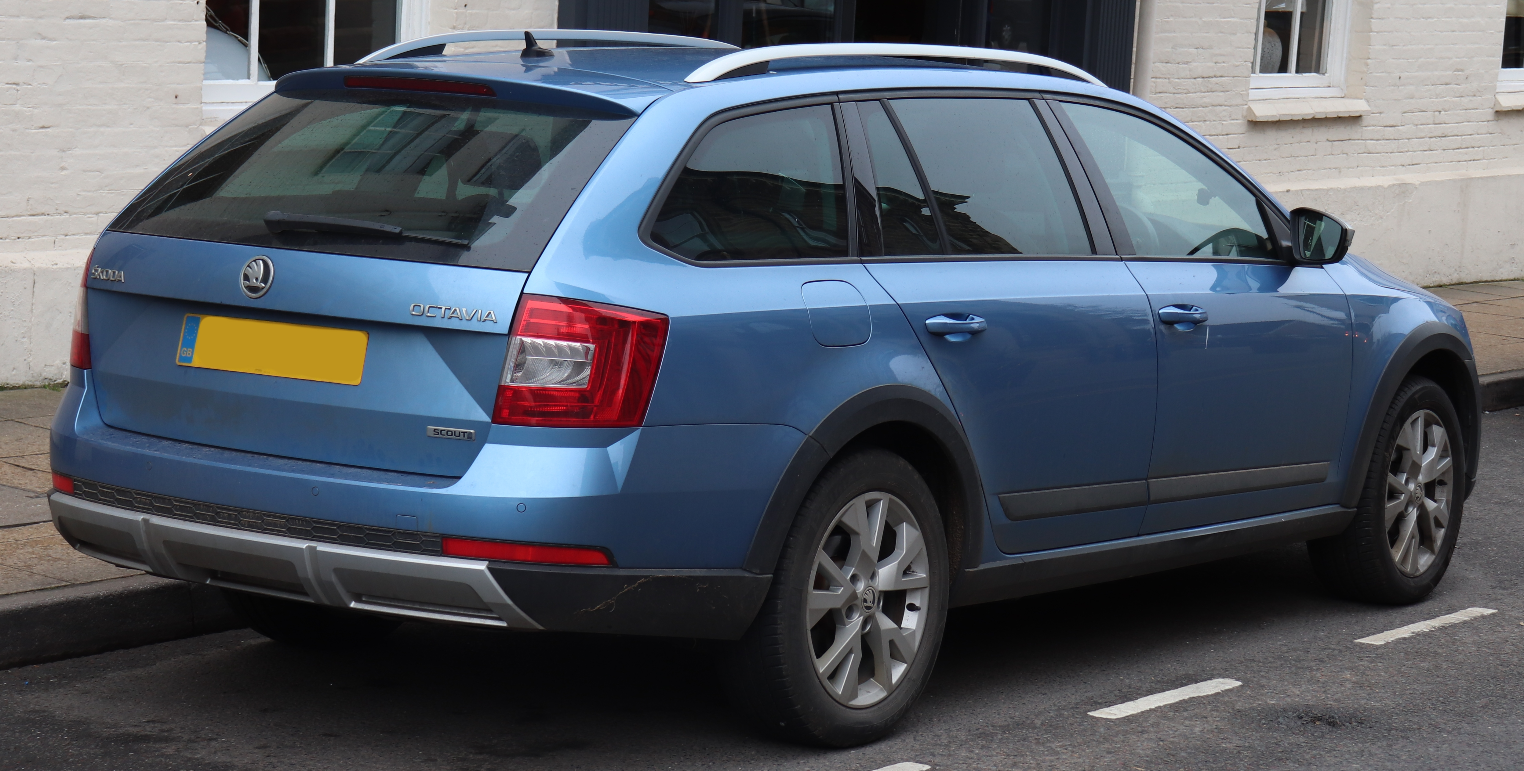 2016 Skoda Octavia Scout TDi 4X4 2.0 Rear Taken in Warwick